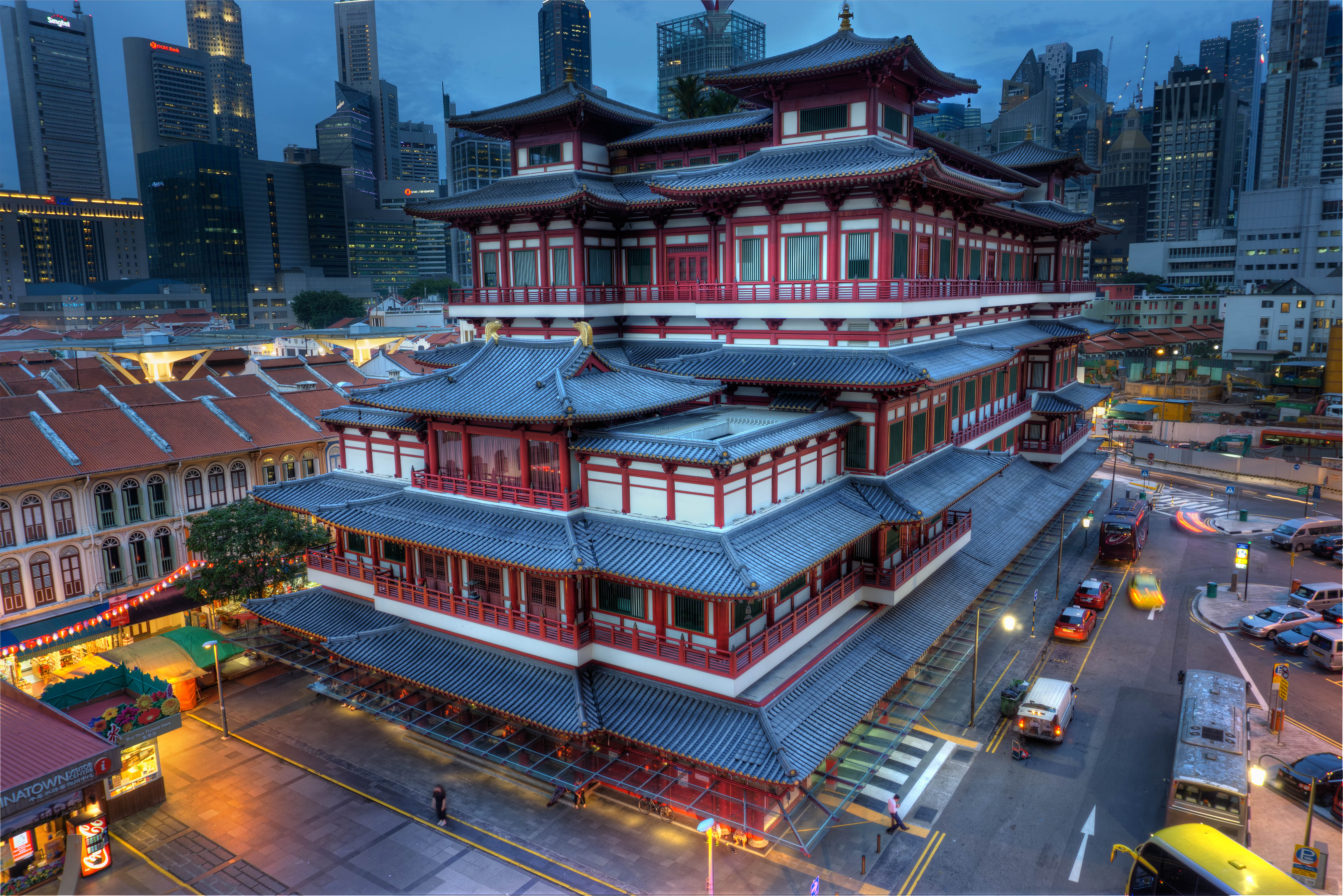 The Buddha Tooth Relic Temple and Museum is a Buddhist temple and museum in Chinatown in central Singapore. This is one of the most photographed places in Singapore and this vantage point is very popular. It took me a while to find out where everyone was taking it from though, so if you're wondering, here's the secret: there's a Housing and Development Board (HDB) block nearby. I took this shot from the 7th floor.